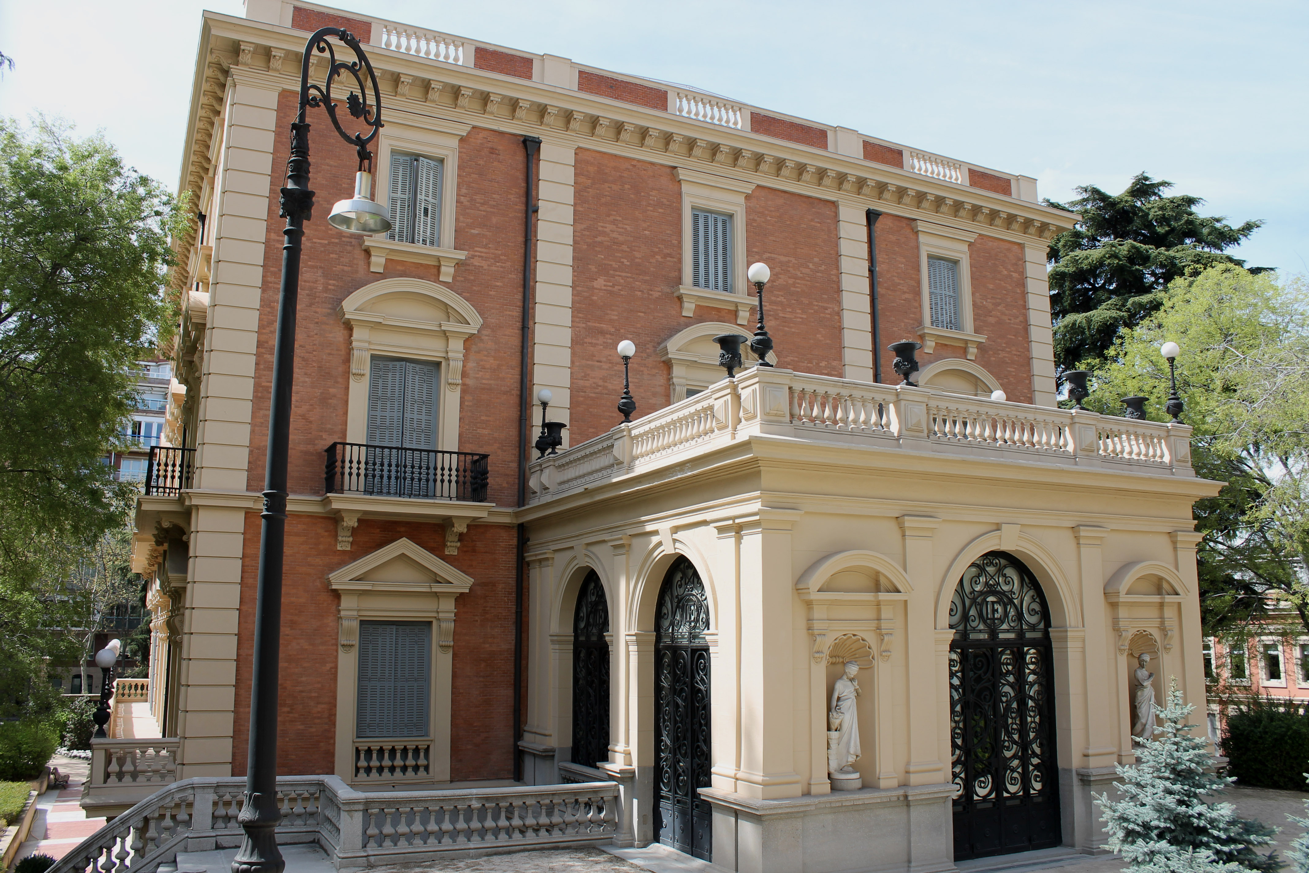 East façade of Lázaro Galdiano Museum in Madrid (Spain).